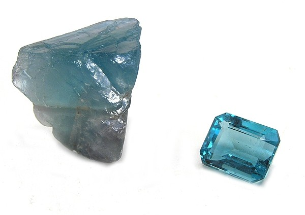 Fluorite Locality: Afghanistan (Locality at ) I apologize for the vagueness of this description - a friend picked this set up from a dealer who was selling this amazingly pretty fluorite without being given the locality. At any rate, what you have here is an emerald-cut stone of very unusual beauty and gemminess (for fluorite) measuring 1.5 cm, along with a euhedral specimen of the raw fluorite from which is was cut. In person, the stone is actually slightly more to the green side of blue - it is really much prettier than the pic shows, and you would never believe it is a fluorite - looks like some exotic apatite or tourmaline. Fluorite is soft, so if you plan to set the stone in a piece of jewelry rather than keeping it in a gem collection, a pendant is suggested rather than a ring. 3.4 x 2.7 x 2.4cm, 1.8 x 1.6 x 0.9cm